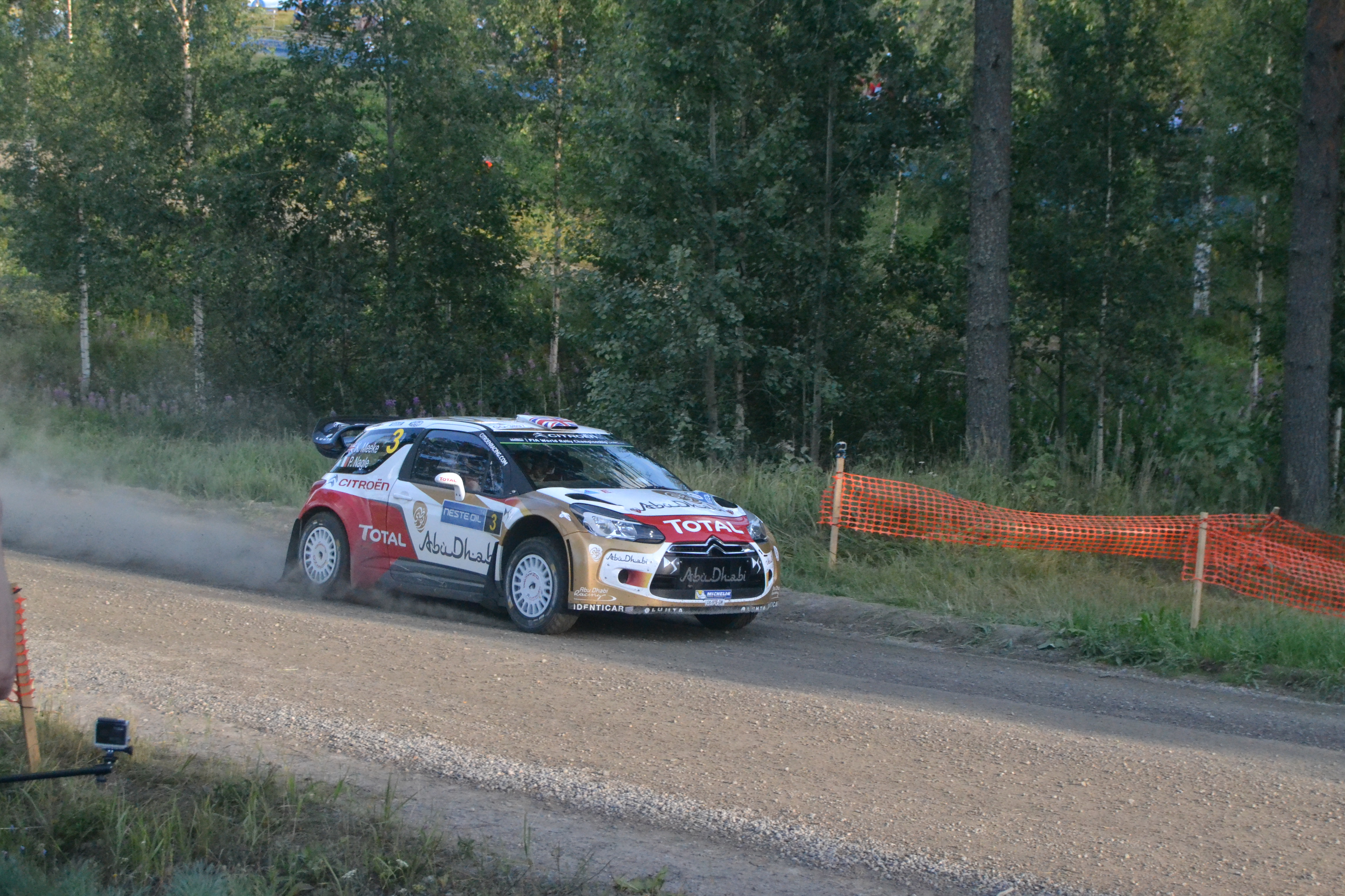 Kris Meeke at 2nd Painaa stage at Rally Finland 2014